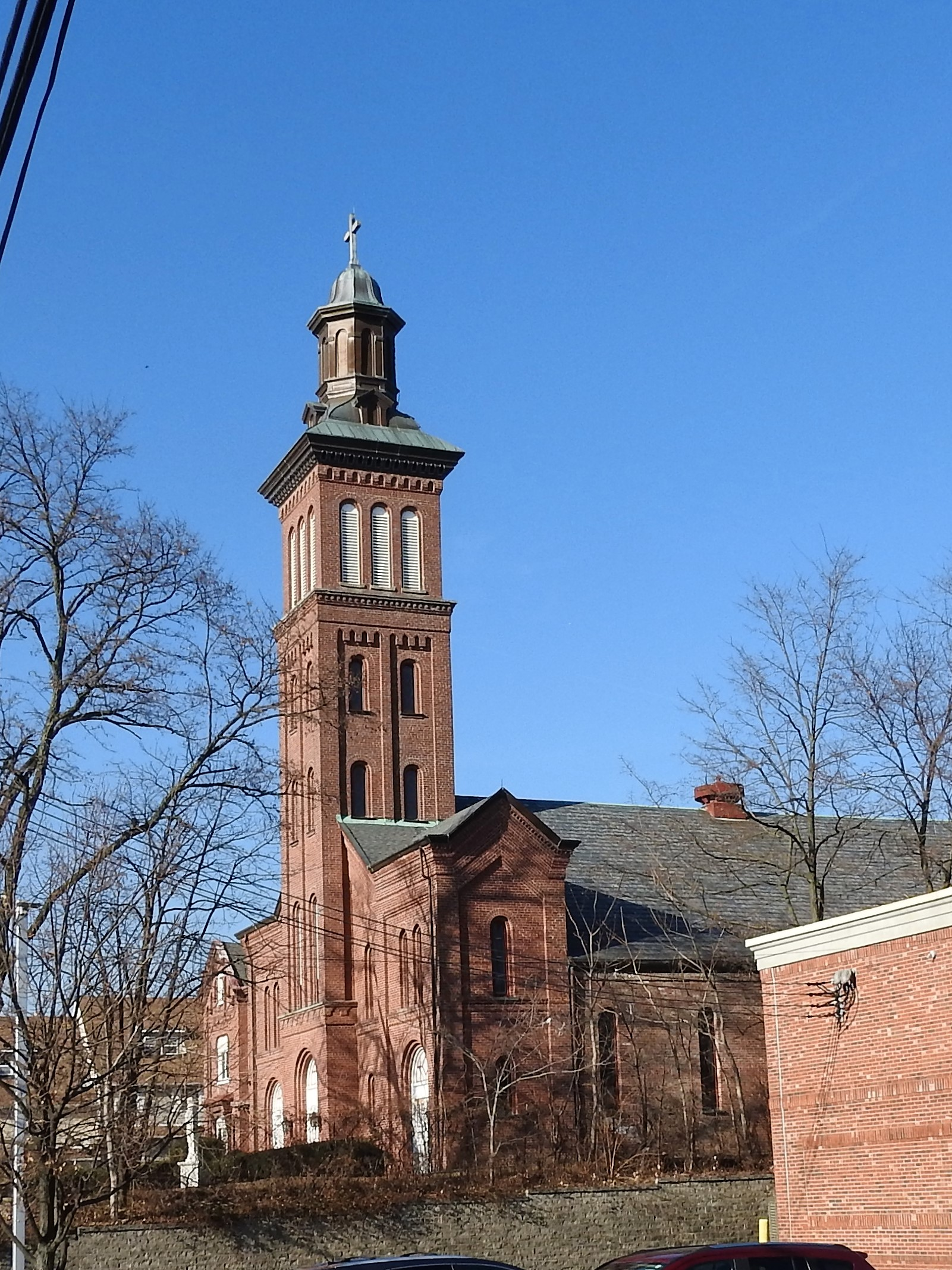 Looking north on a sunny late afternoon.